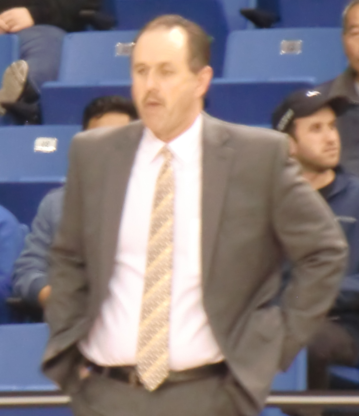 University of Idaho men's basketball coach Don Verlin at the bench before Idaho's game against San Jose State at the Event Center in San Jose, Calif. on Nov. 14, 2015.